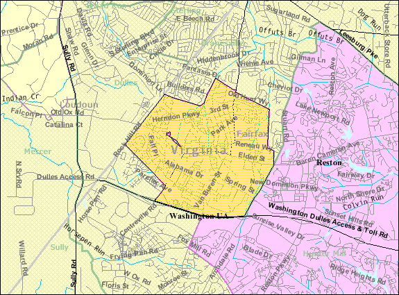 Boundaries of the town of Herndon, Virginia (in darker orange) as of 2000.